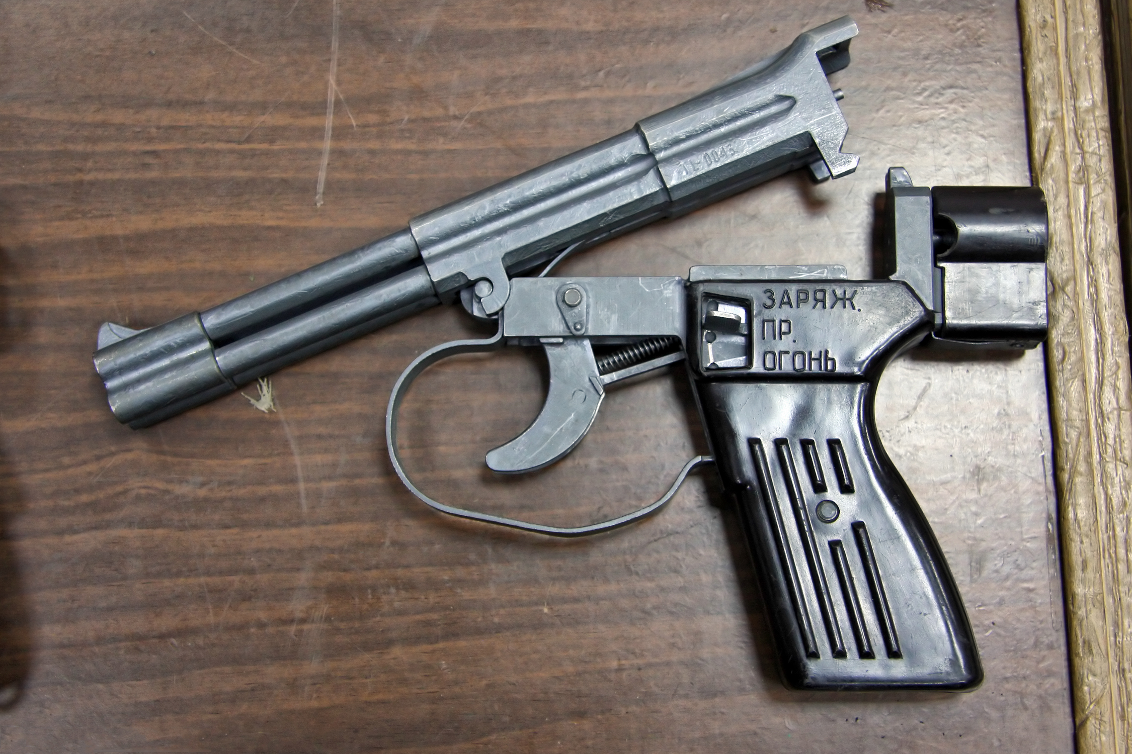 SPP-1M underwater pistol - TSNIITOCHMASH